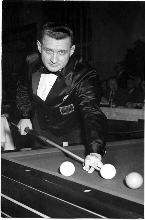 German carom billiards player